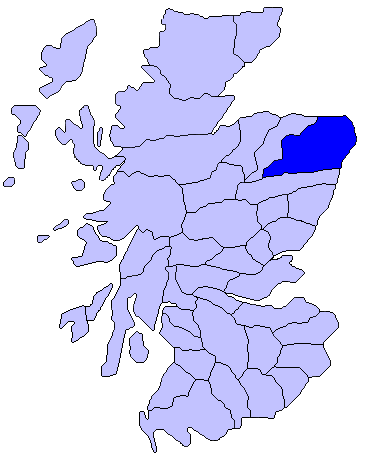 Map showing roughly the district of Buchan in Scotland.